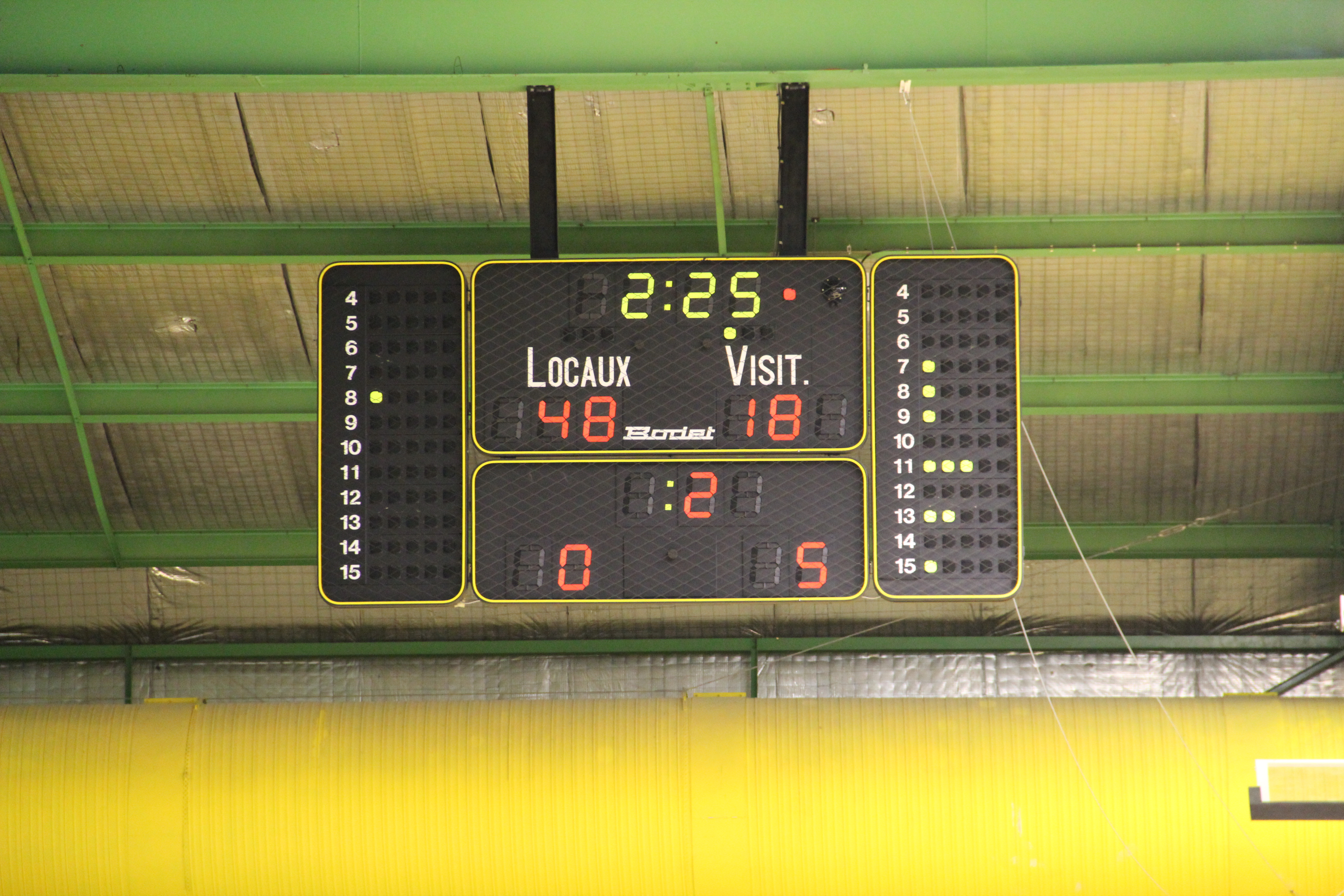 Scoreboard at the half time (LE Roma 48, Toulouse IC 18).